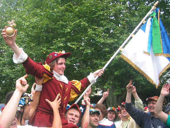 Champion marksman (Schützenkönig) at the Adlerschießen crossbow shooting contest during the annual Rutenfest festival in Ravensburg, Germany. The golden orb being held aloft is one of the prime targets of the popinjay, which this shooter has managed to dislodge.